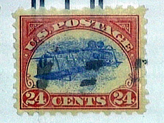 Image taken by Florida state election officials before sealing the cover with the above stamp.